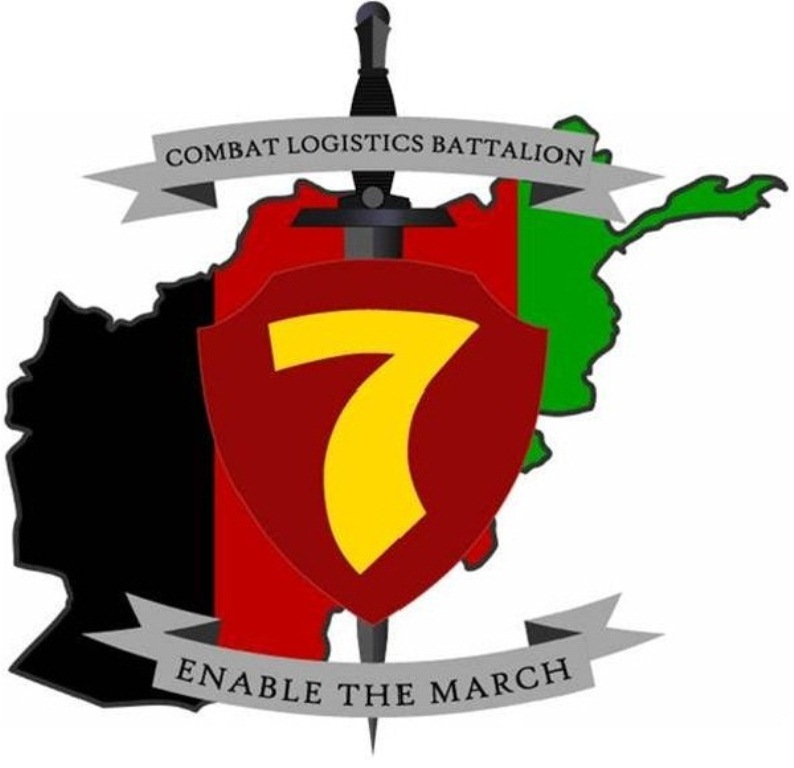 OEF 14.1 CLB-7 (Fwd) Logo